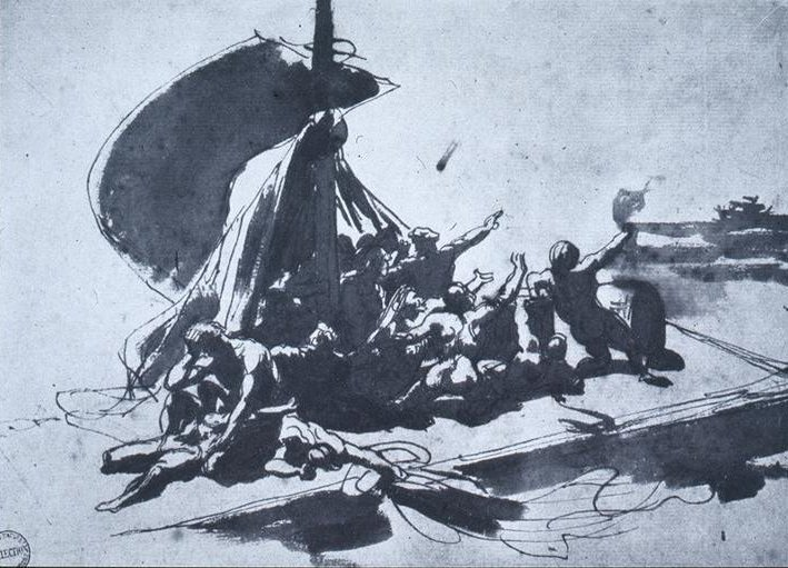 Ink study for The Raft of the Medusa: The sighting of the Argus, not dated. 35 x 41 cm. Collection of the Musee des beaux-arts, Lille.